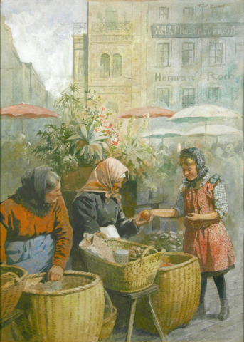 1096 dated work of Friedrich Wilhelm Heine, watercolor on paper (11 7/8" x 8 5/8" inches), Gift of Robert and Dorothy Luening in the Museum of Wisconsin Art Collection, #: #: 2006-014 ...